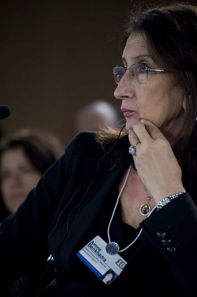 MARRAKECH/MOROCCO, 26OCT10 - Amina Benkhadra, Minister of Energy, Mines, Water and Environment of Morocco - Solving the New Energy Equation- World Economic Forum on the Middle East and North Africa Marrakech, Morocco, 26 October 2010. Copyright World Economic Forum ( by Oussama Rhaleb/still